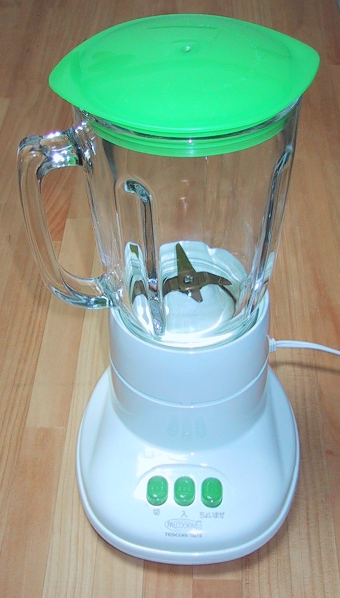 Electric Blender, Japanese 110 V model. The button on the left stops, the center button is for continuous operation, and the right button operates only while the button in spressed.